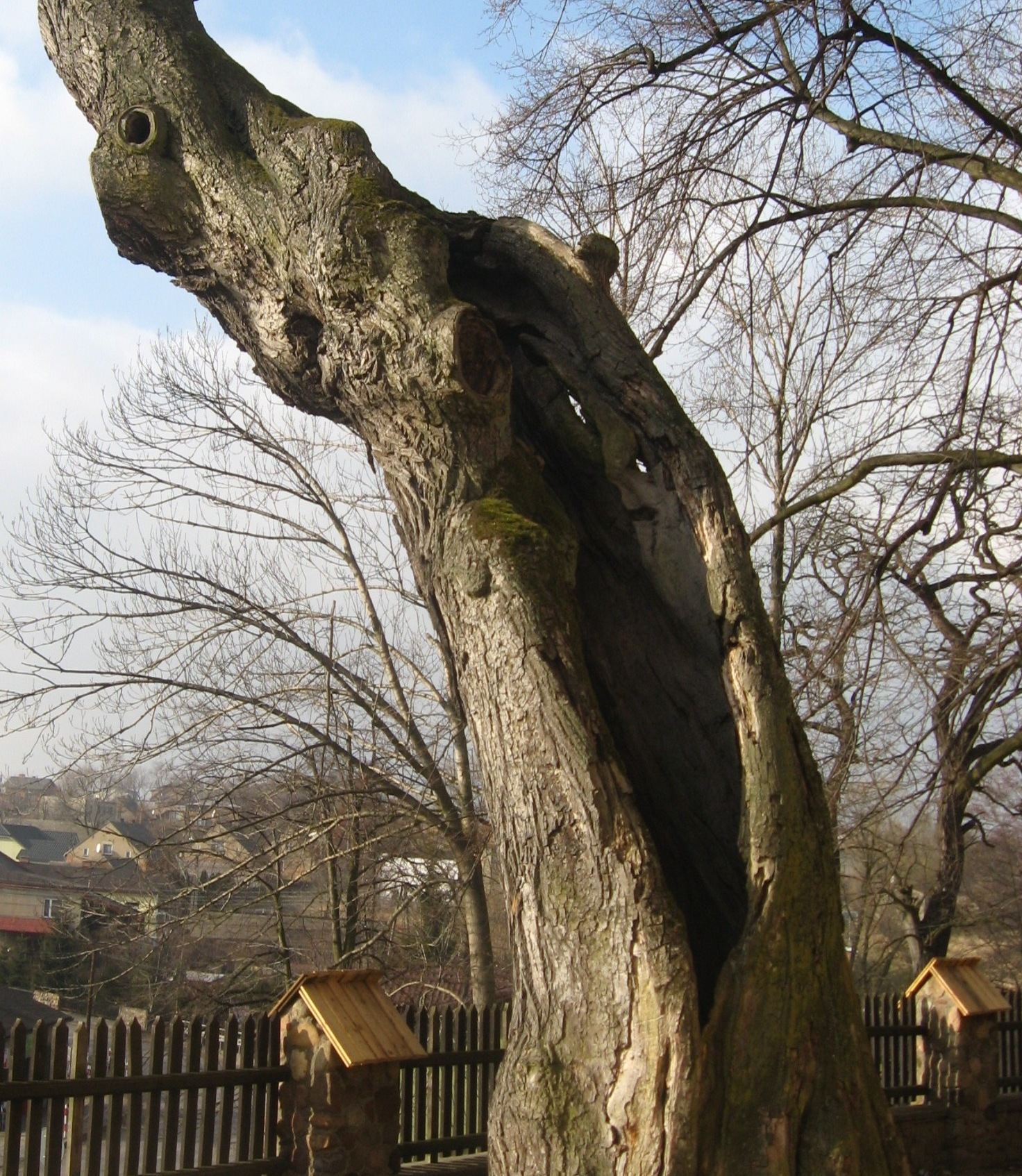 Tree forrow - linden tree